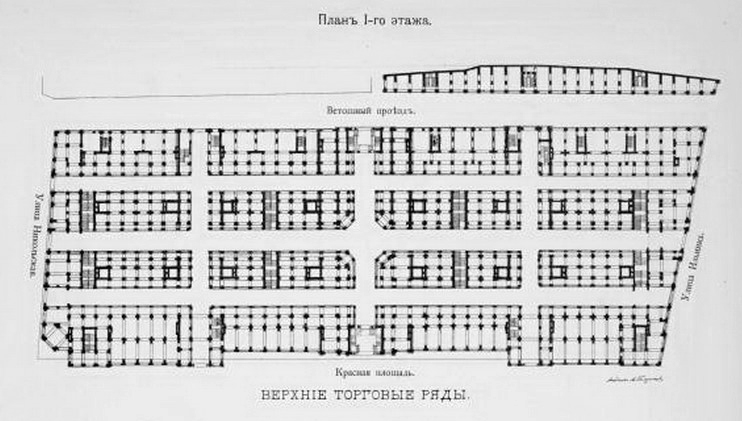 Plan of the Upper Trading Rows (GUM)